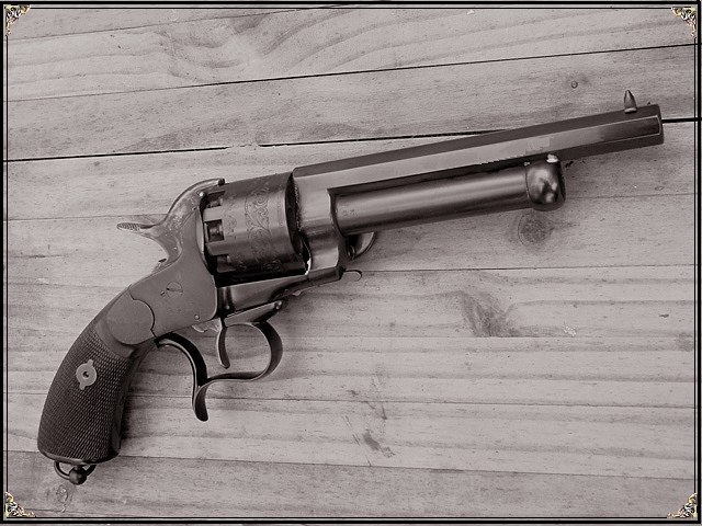 photograph by Mike Cumpston